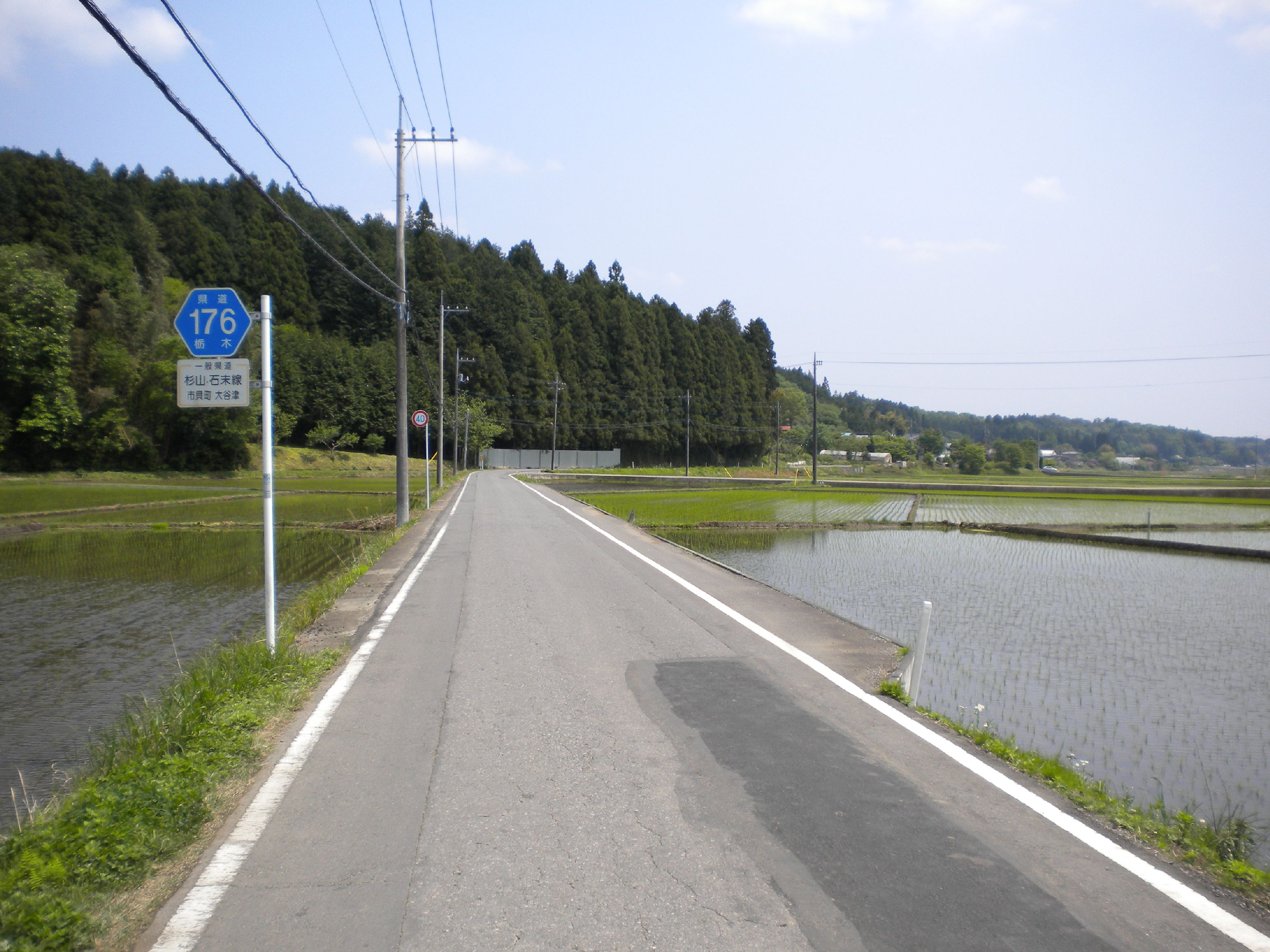 The Tochigi Prefectural Road Route 176 in Oyatsu, Ichikai Town